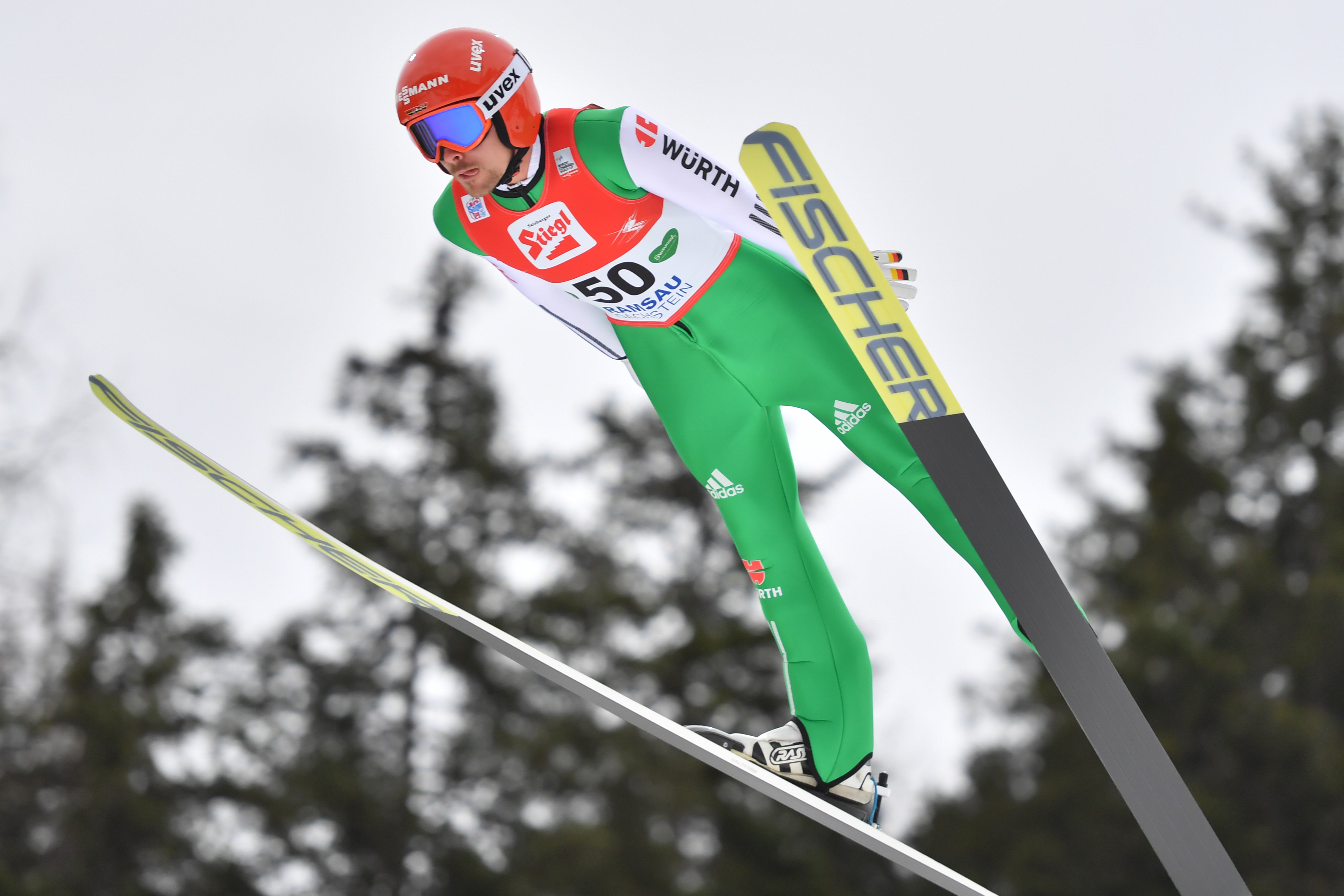 FIS World Cup Nordic Combined, Ramsau/Austria, 2016-12-16 to 2016-12-18.